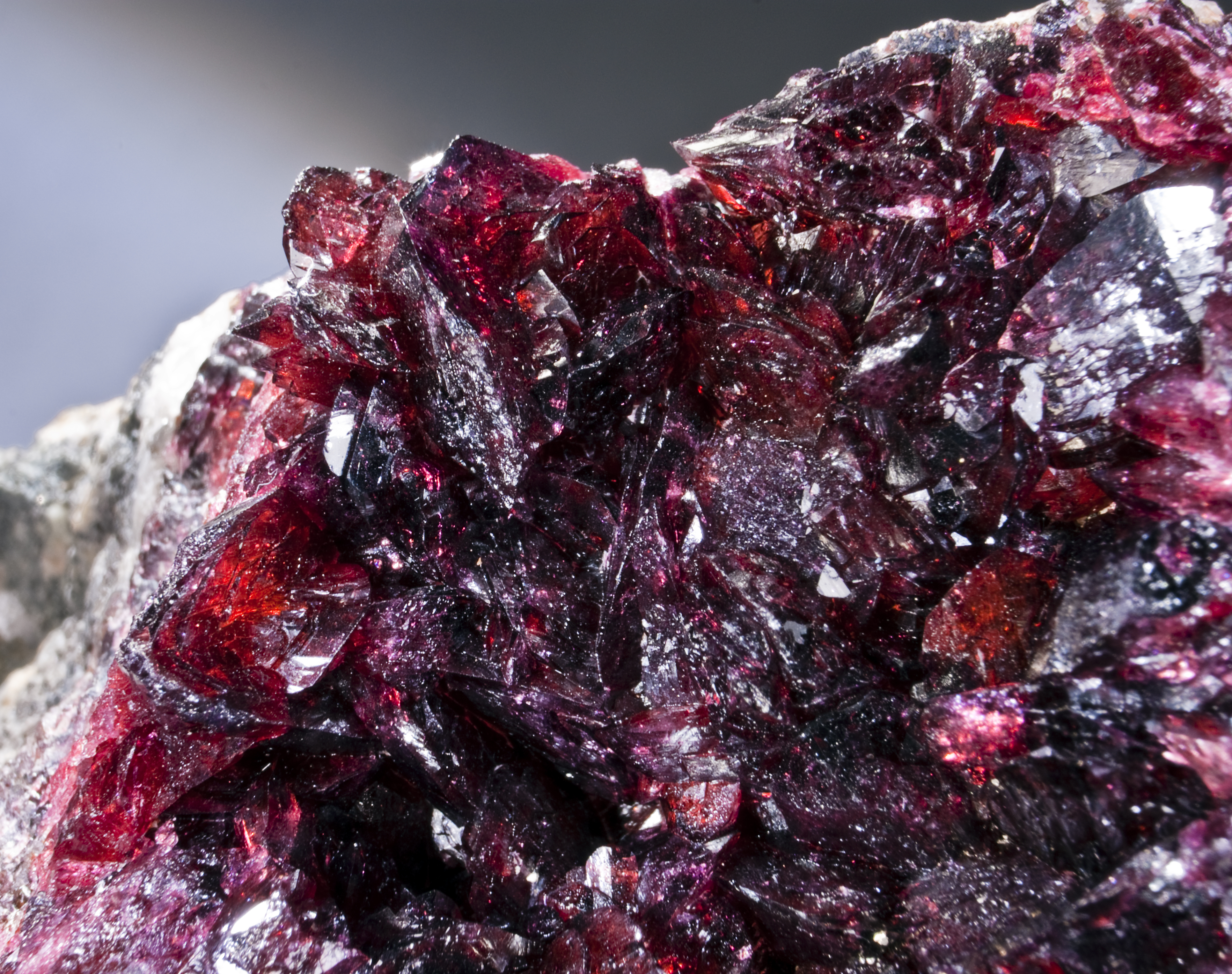 Wendwilsonite - Bou Azzer District, Tazenakht, Ouarzazate Province, Souss-Massa-Draâ Region, Morocco - 8x8x6cm ;Crystal Size 9mm